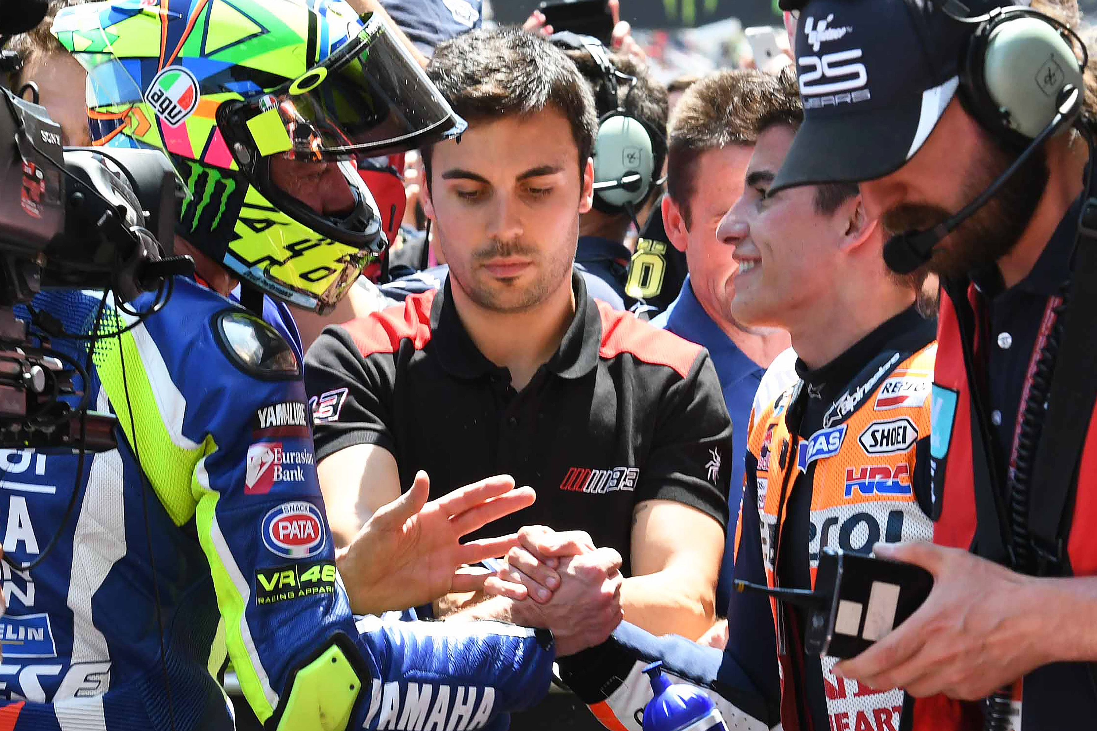 Marc Marquez and Valentino Rossi after 2016 Catalunya motorcycle Grand Prix